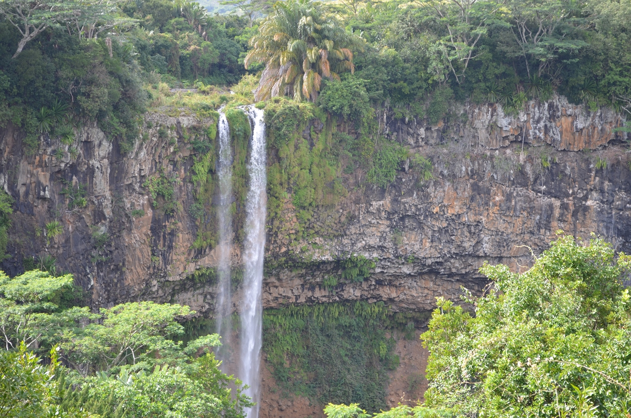 Chamarel Falls, Mauritius